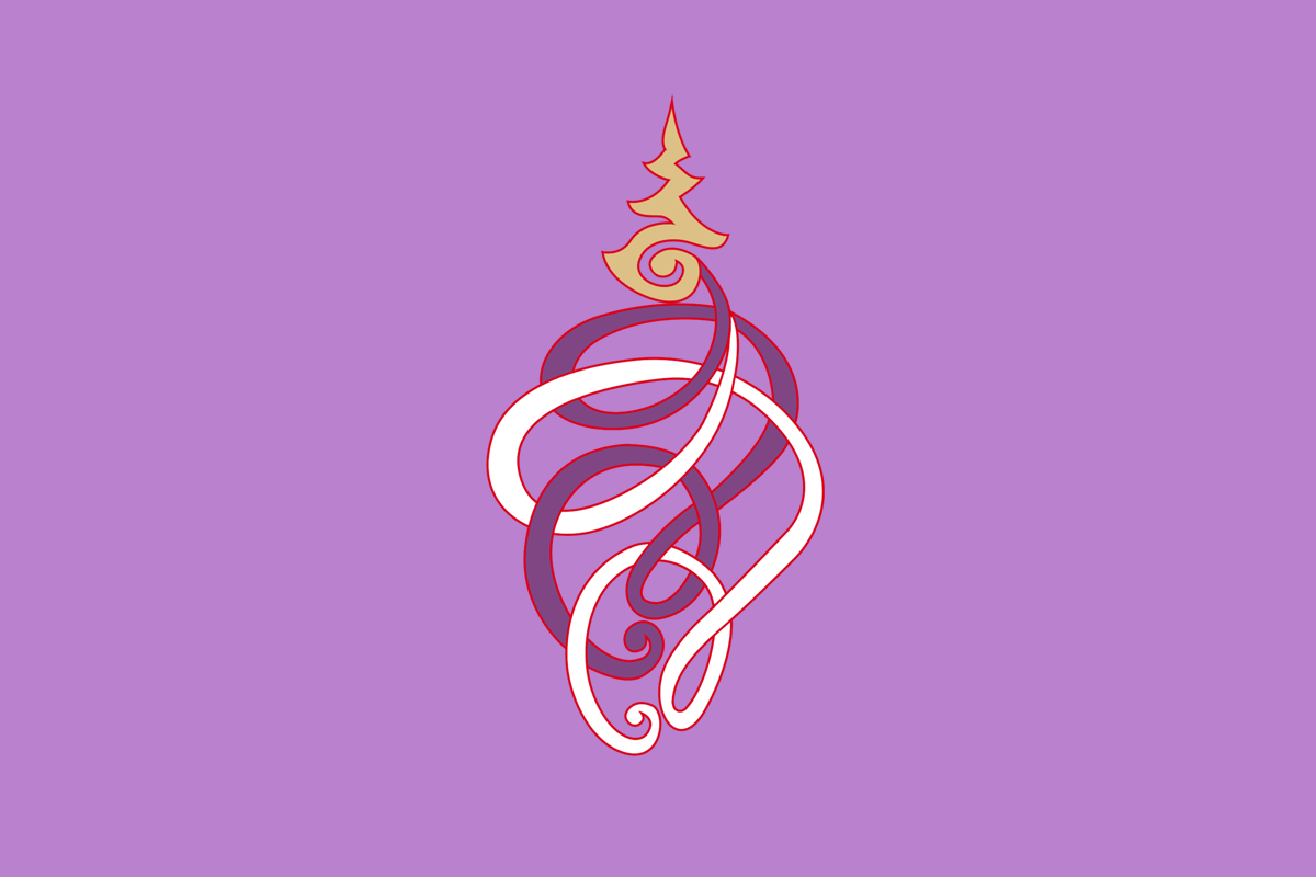 Royal flag of HRH Princess Soamsavali, with Purple flag (the Princess’ birthday colour), the middle is the Royal Cypher.